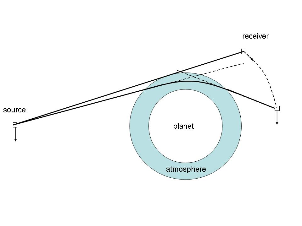 The diagram illustrates radio occultation and refraction.